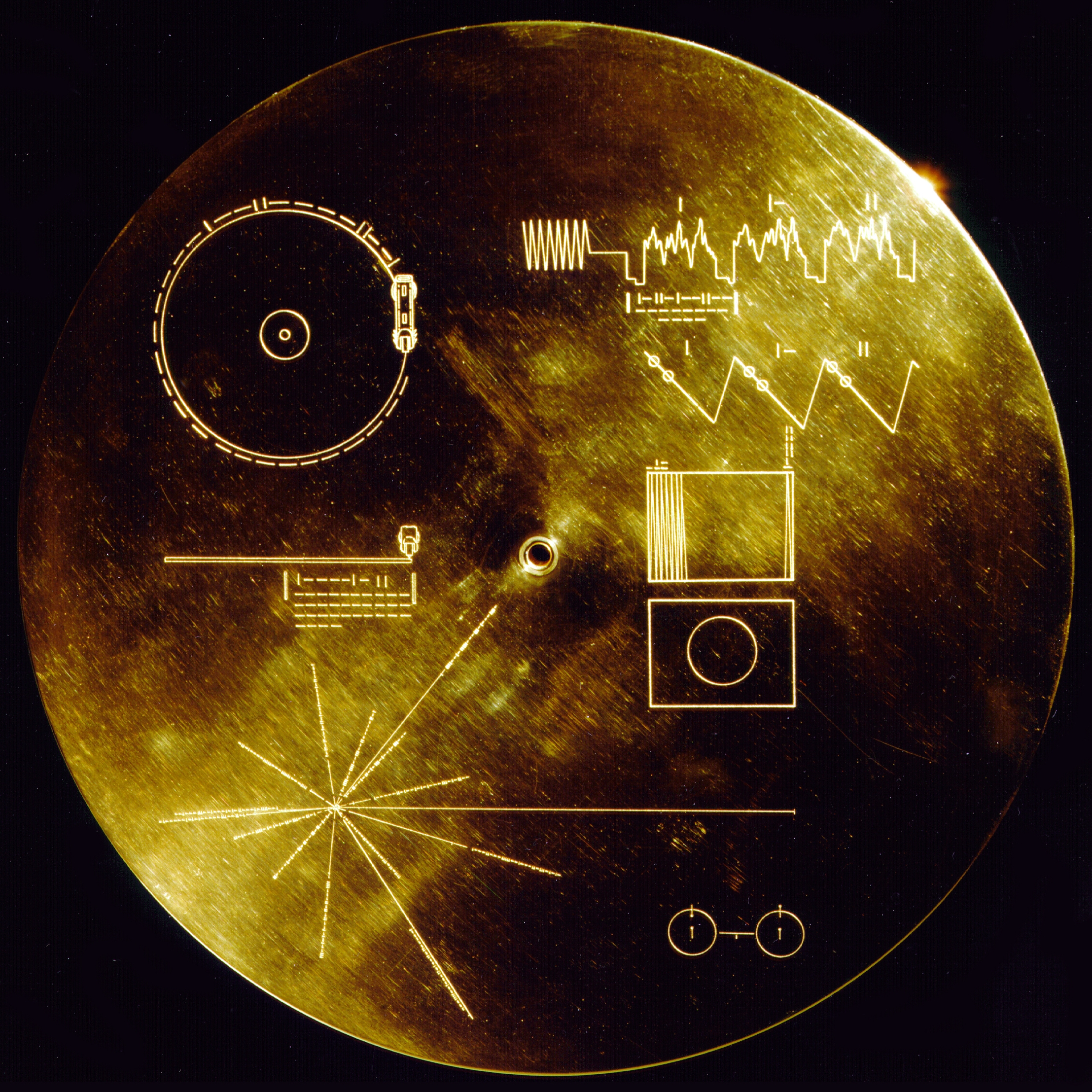 Voyager Golden Record This gold aluminium cover was designed to protect the Voyager 1 and 2 "Sounds of Earth" gold-plated records from micrometeorite bombardment, but also serves a double purpose in providing the finder a key to playing the record. The explanatory diagram appears on both the inner and outer surfaces of the cover, as the outer diagram will be eroded in time. Flying aboard Voyagers 1 and 2 are identical "golden" records, carrying the story of Earth far into deep space. The 12 inch gold-plated copper discs contain greetings in 60 languages, samples of music from different cultures and eras, and natural and man-made sounds from Earth. They also contain electronic information that an advanced technological civilization could convert into diagrams and photographs. Currently, both Voyager probes are sailing adrift in the black sea of interplanetary space, flying towards the outmost border of our solar system.